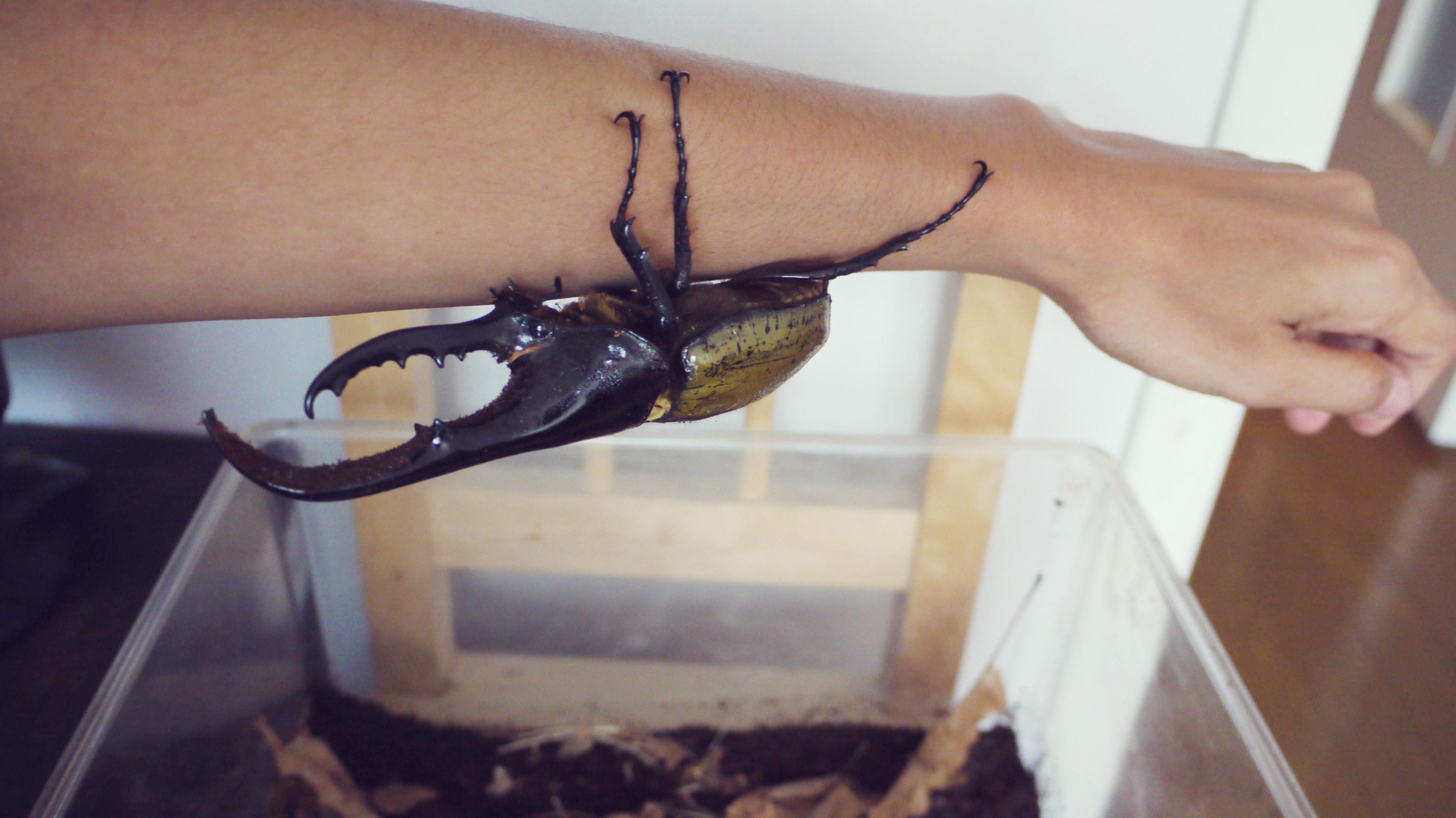 After 2 years of waiting, he finally turned into a beetle! - May 30, 2011 blogged